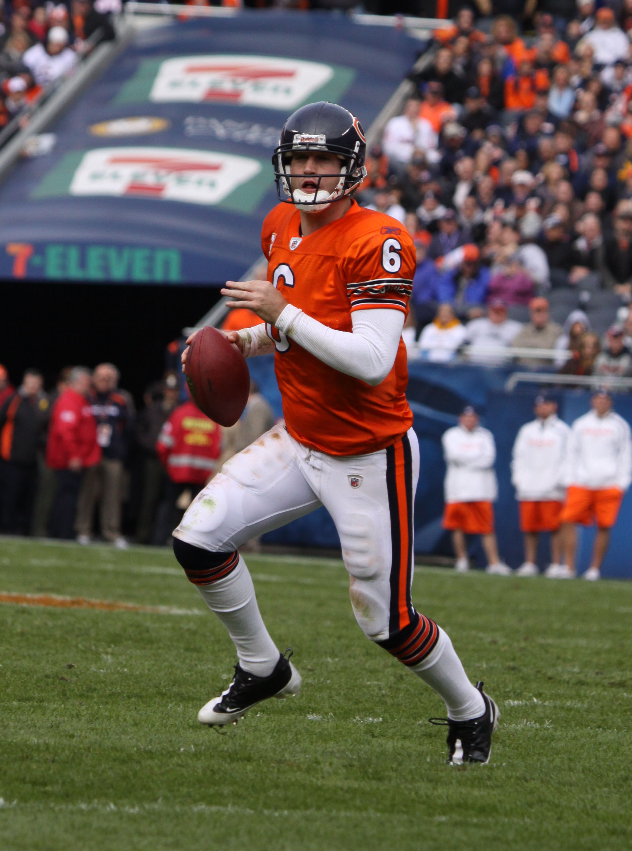 JAY CUTLER, of the Chicago Bears, in action during the Bears game against the Cleveland Browns on November 1, 2009 in Chicago, IL.